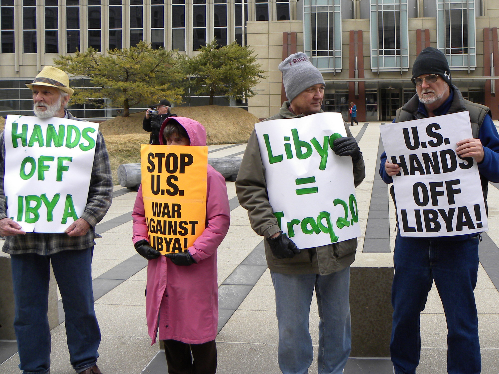 Protest in Minneapolis, Minnesota on March 21, 2011 against US military action in Libya